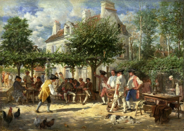 Dimanche à Poissy, oil on canvas (19 x 12 cm)